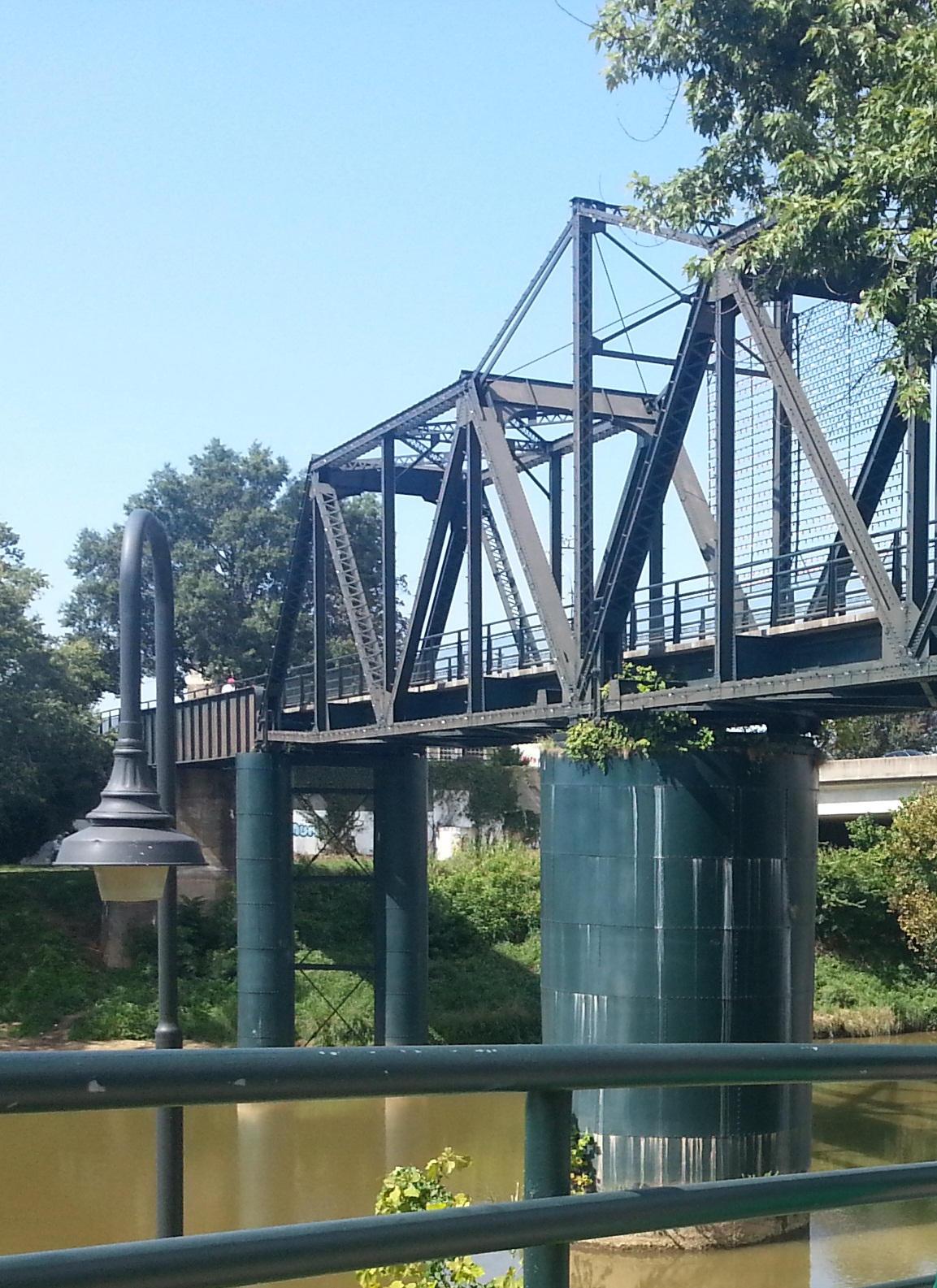 This former Central of Georgia Railway swing bridge near to, but not included in the Between the Rivers Historic District, crosses Oostanaula River; view from Bridgepoint Plaza, now Robert Redden Foot Bridge